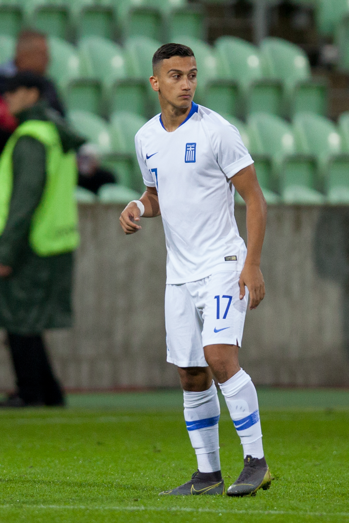 Eleftherios Lyratzis in an internatinoal association football match of European Under-21 Championship Qualifying Round between the Czech Republic and Greece, Městský stadion Karviná, Karviná District, Moravian-Silesian Region, Czechia Personality rights warningAlthough this work is freely licensed or in the public domain, the person(s) shown may have rights that legally restrict certain re-uses unless those depicted consent to such uses. In these cases, a model release or other evidence of consent could protect you from infringement claims.